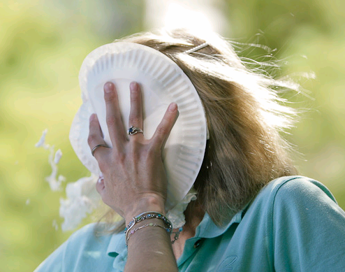 09-September_qwest_pie_throwing_0121